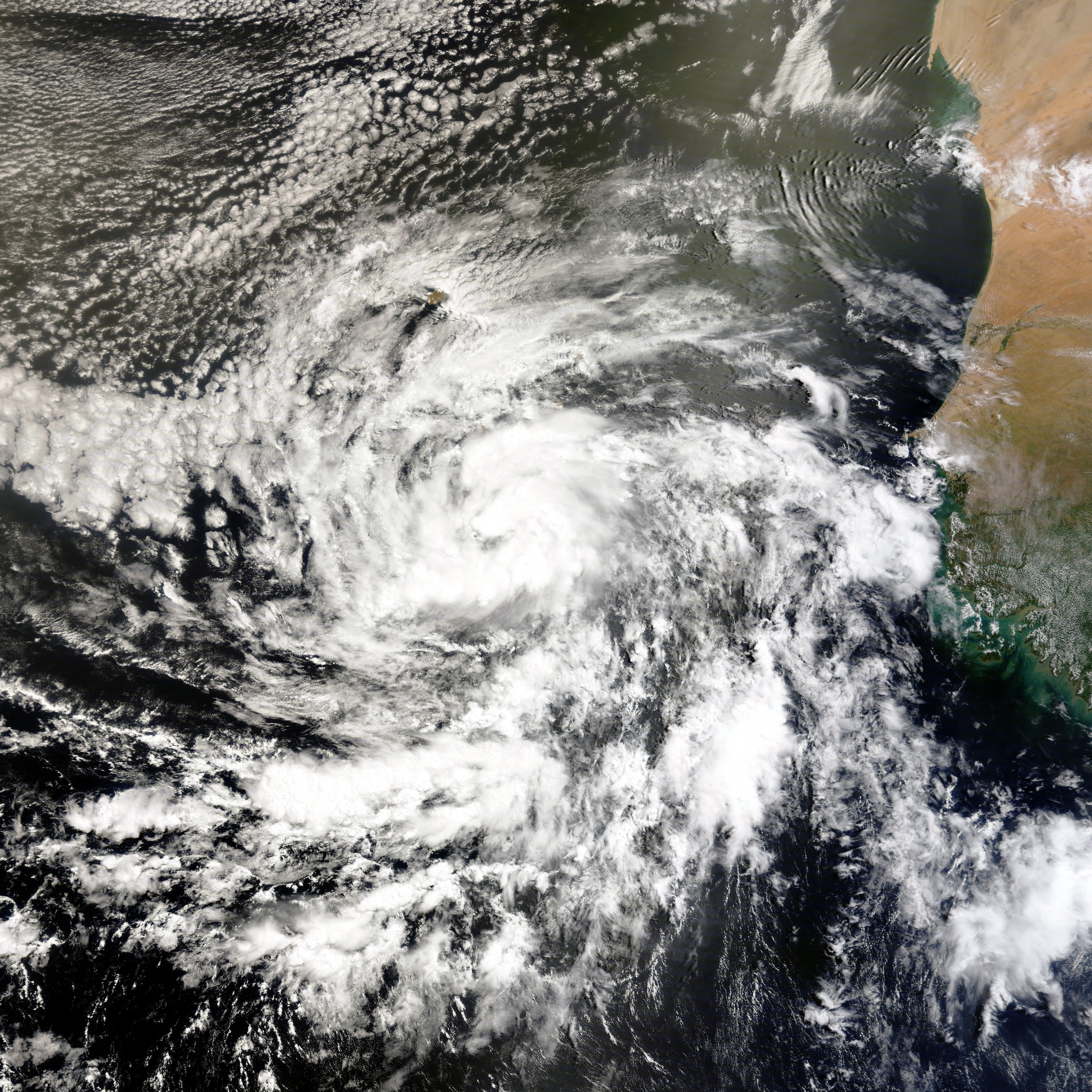 On July 3, a tropical wave (a migratory, wavelike disturbance of the tropical easterlies) off the western coast of Africa strengthened into a circular pattern of intensifying clouds, forming Tropical Storm Bertha. This natural-color image, obtained by the Moderate Resolution Imaging Spectroradiometer (MODIS) on NASA’s Terra satellite shows Bertha in its early stages, south of the Cape Verde Islands. Storms that form in this region are known as Cape Verde storms, and they typically are first observed forming in August or September, though a Cape Verde storm as early as July is not particularly unusual. The storm system shows the nascent spiraling shape of a developing cyclone. Within days, Tropical Storm Bertha was halfway across the Atlantic Ocean, intensifying to become a hurricane as it traveled over warm ocean waters. According to the National Hurricane Center, as of July 8, Bertha was a Category 2 strength hurricane, having peaked earlier at Category 3. Forecasts at that time showed Bertha arcing northward towards Bermuda, though forecasters were not expecting the hurricane to directly cross the island. Bertha was the first hurricane of the 2008 Atlantic storm season. Usually, the first hurricane of a season forms by mid-August; in 2007, the first hurricane was Dean, which formed on August 16. However, it is not unprecedented to have a first hurricane this early in the season. In 1996, another storm formed to become a hurricane on July 7. It, too, was named Bertha. Unless they are retired, storm names are reused every six years.